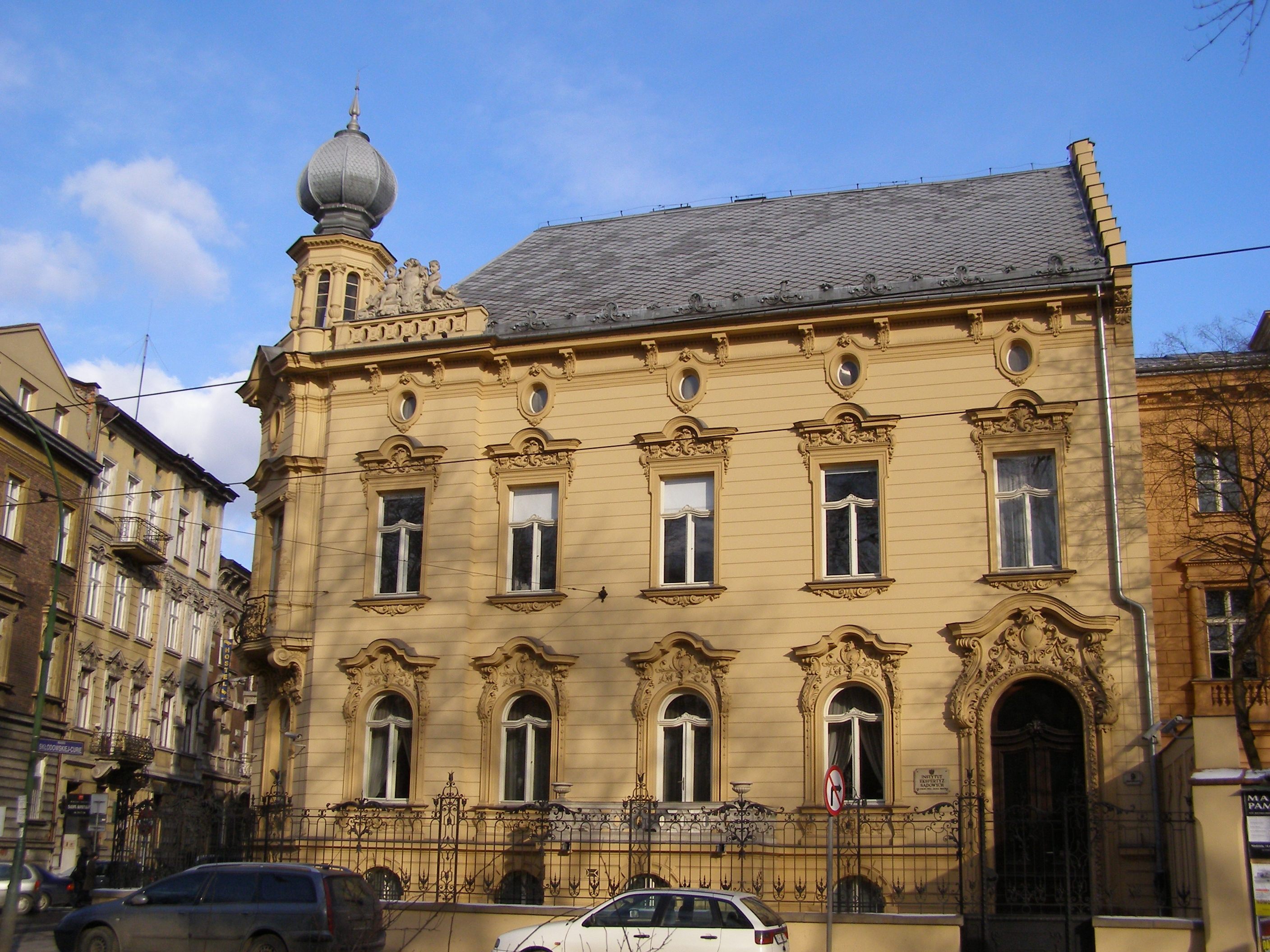 Kraków - Juliusz Jutkiewicza palace in Westerplatte str., seat of the Jan Sehn Institute of Forensic Research